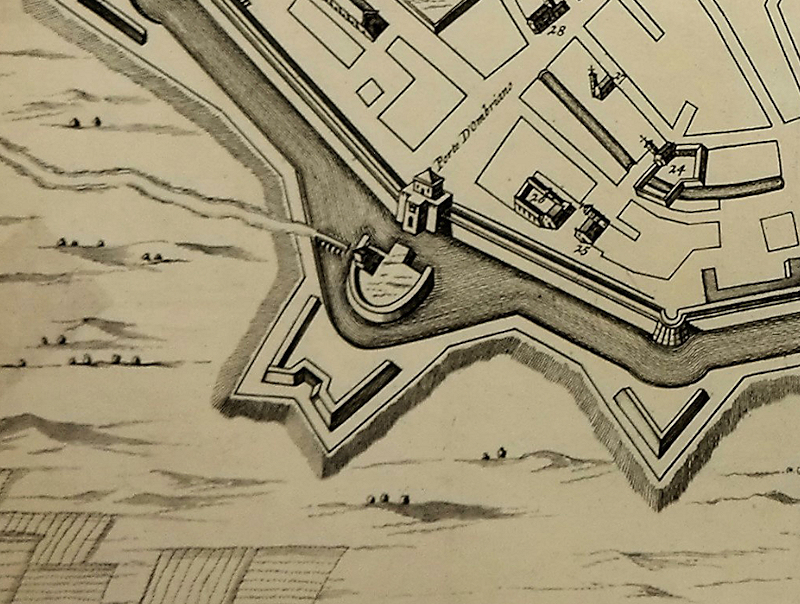 Crema town plant made by Pierre Mortier, particular of the gate "Porta Ombriano", etching, Amsterdam, 1708